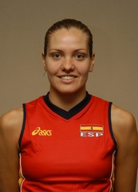 Yasmina Hernández Ramos, volleyball player.